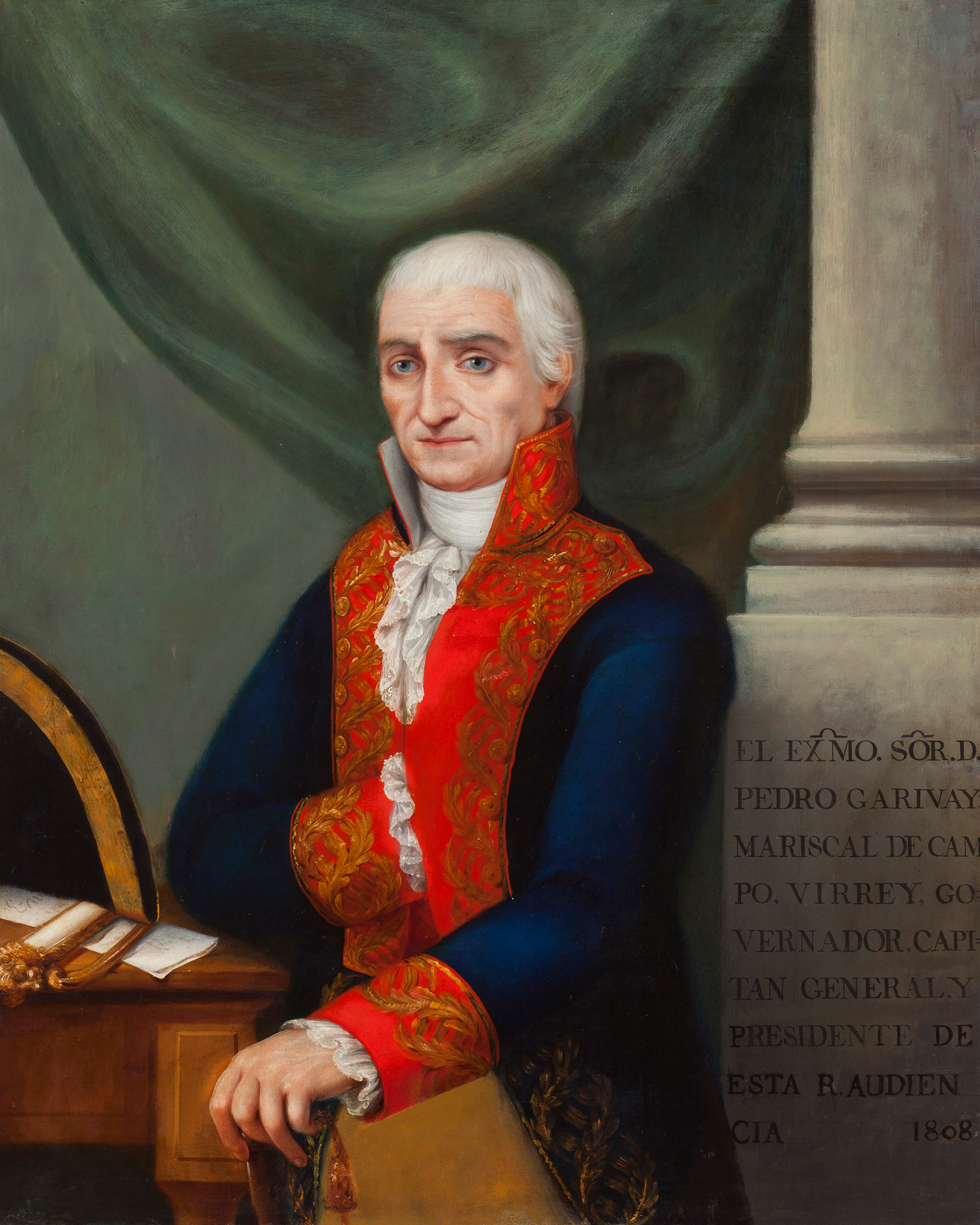 Portrait of Spanish Viceroy Pedro de Garibay (1729-1815)